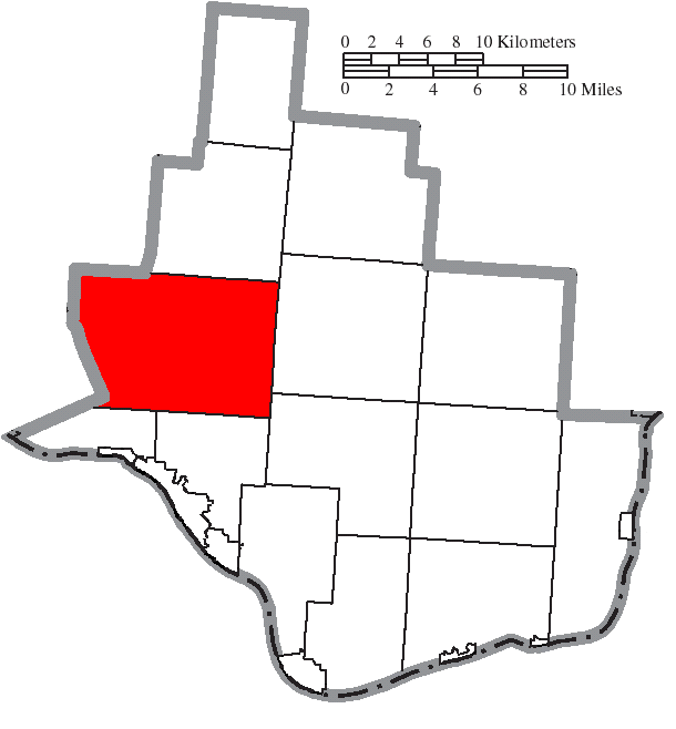 Map of the municipal and township boundaries of Lawrence County, Ohio, United States, as of the 2000 census, with the location of Elizabeth Township highlighted. Township borders are shown only in unincorporated areas in order to differentiate incorporated and unincorporated areas more clearly.